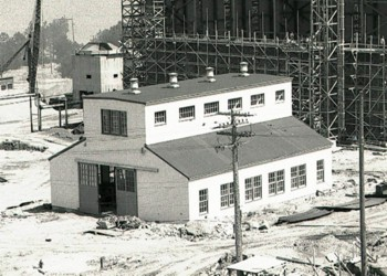 The ZEEP reactor building circa 1945